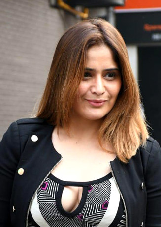 Aarti at coffee shop